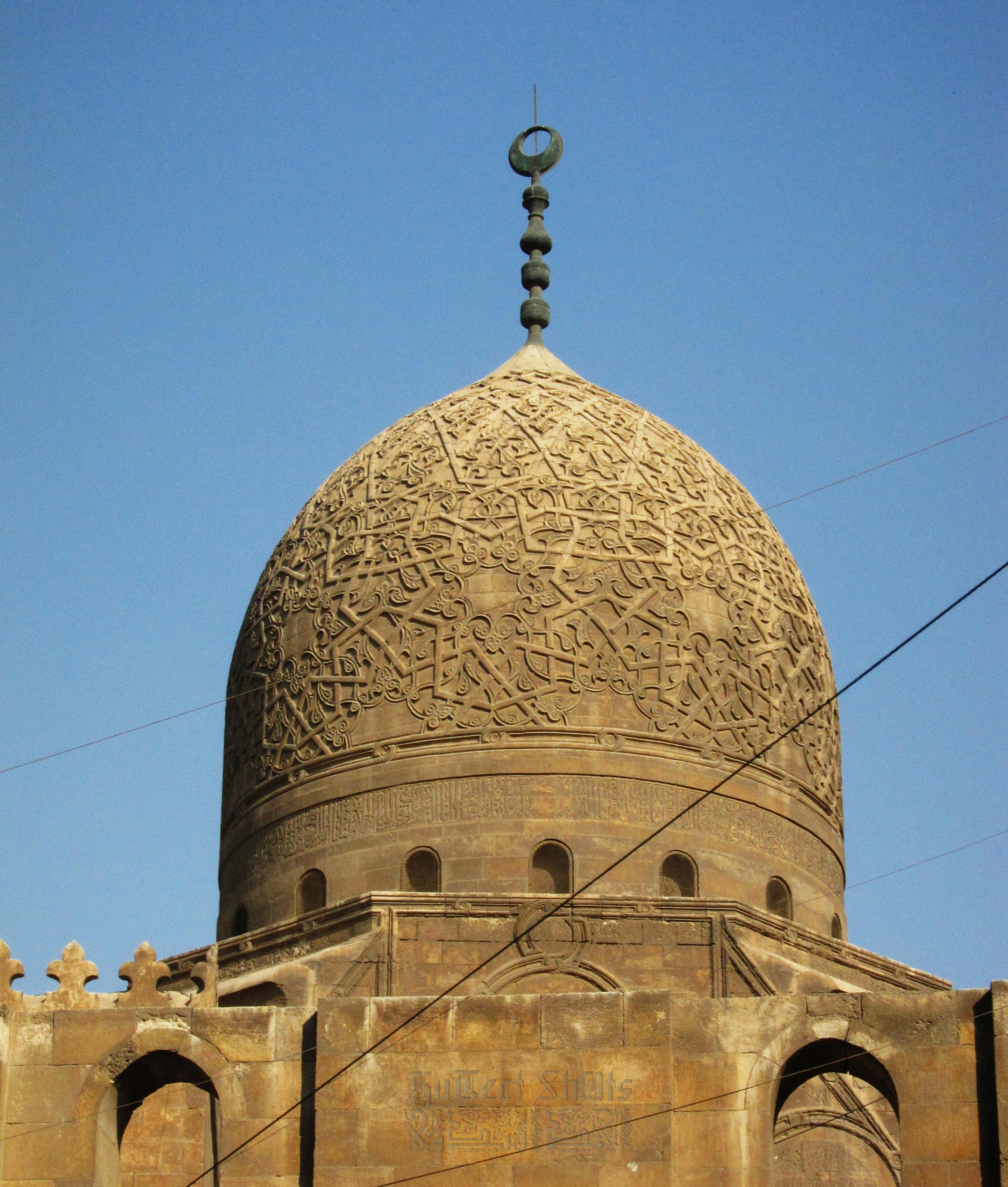 The Madrasa and Mosque of Sultan Qaytbay is located in the Northern Cemetery (Cemetery of the Mamluks), Cairo, Egypt Date of the monument: Hegira 879 / AD 1474 Period / Dynasty: Mamluk Patron(s): Sultan al-Ashraf Abu al-Nasr Qaytbay (r. AH 872–901 / AD 1468–96). More.